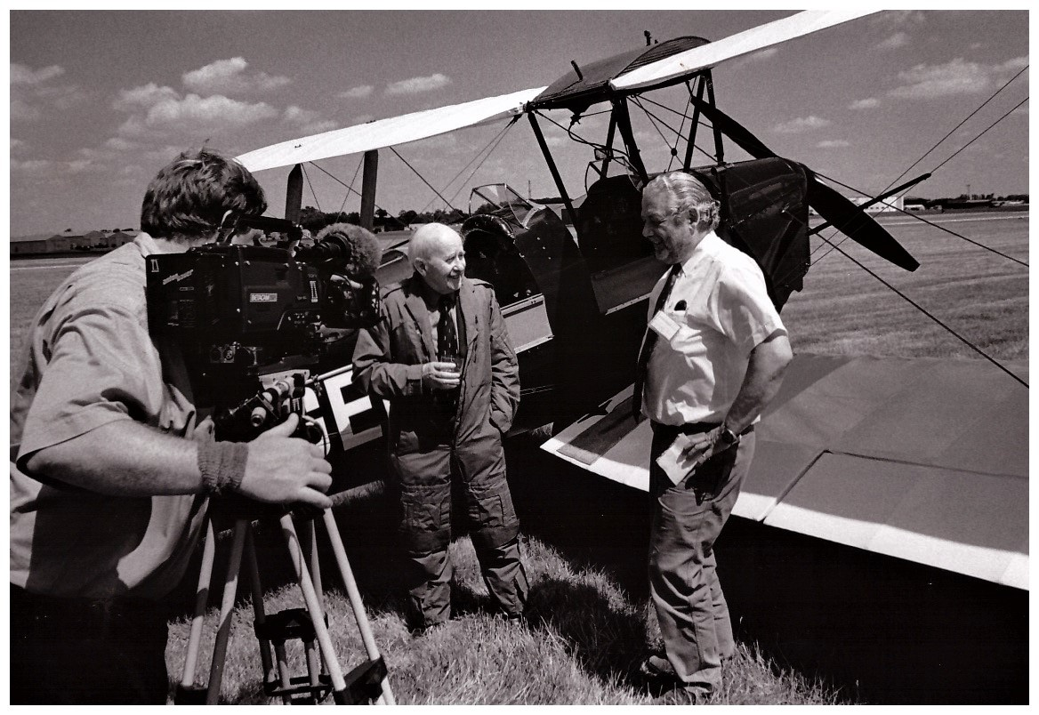 Dominic Bruce 20 July 1995